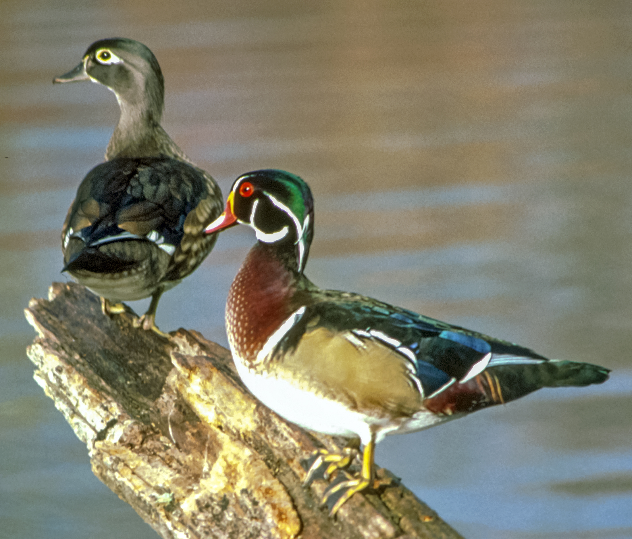 Wood Duck public domain from USFWS